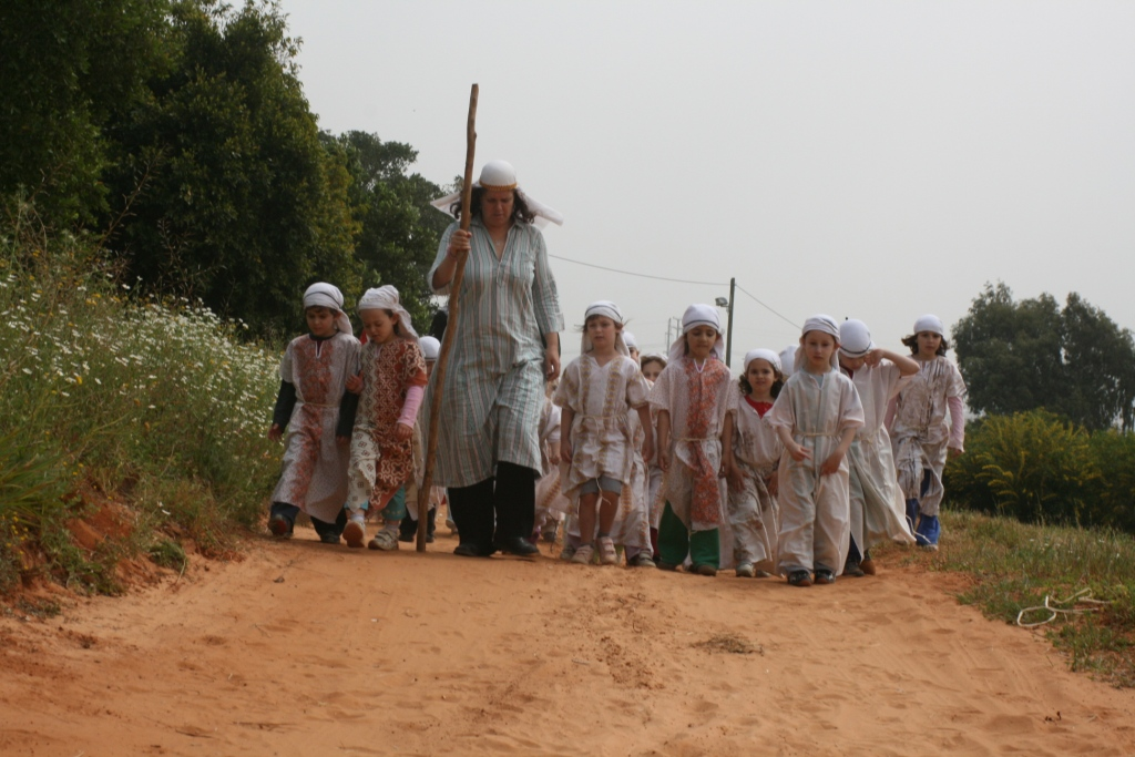 Nir Eliyahu, Jewish holidays